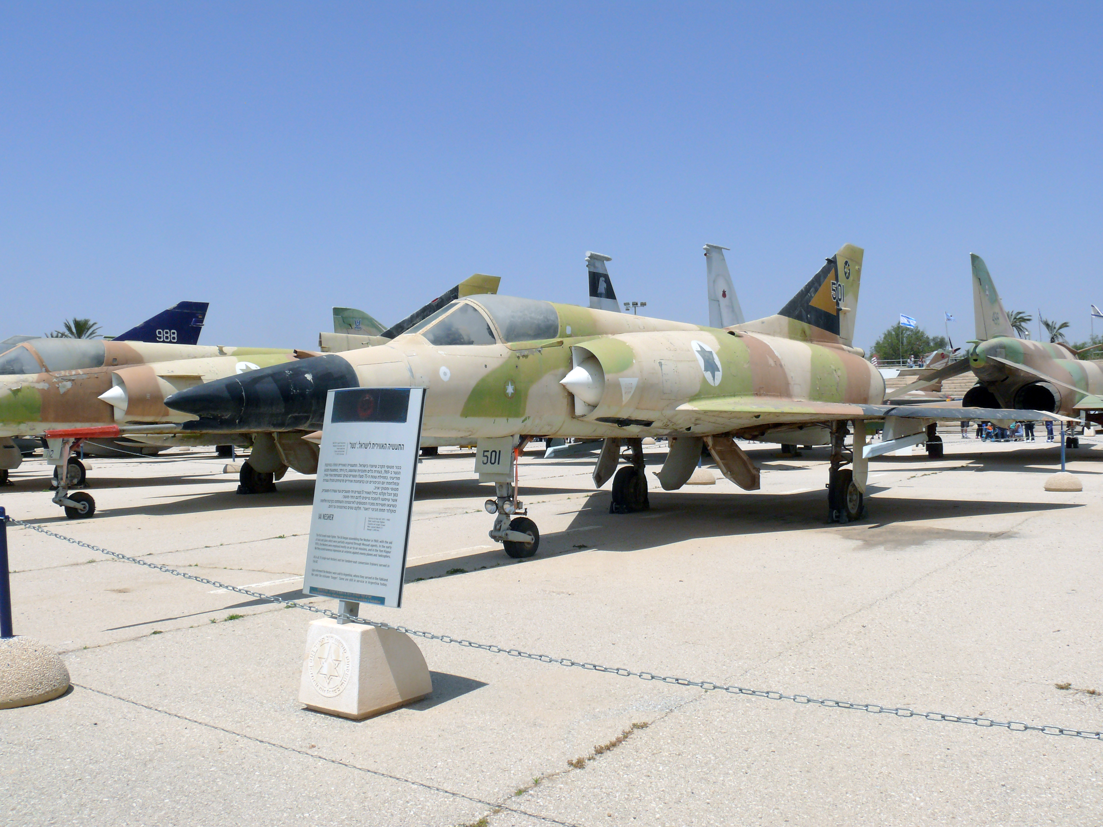 Israeli Air Force IAF Nesher, Israeli-made warplane